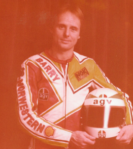 Profile of Barry Woodland in full racing leathers and helmet